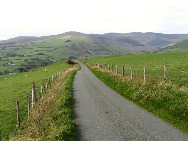 Road by Garneddwen The hill in the middle is Godor, and the mountains on the right are the Berwyns.